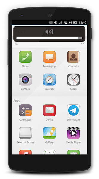 The Nexus 5 smartphone running Ubuntu Touch displaying the Apps scope.